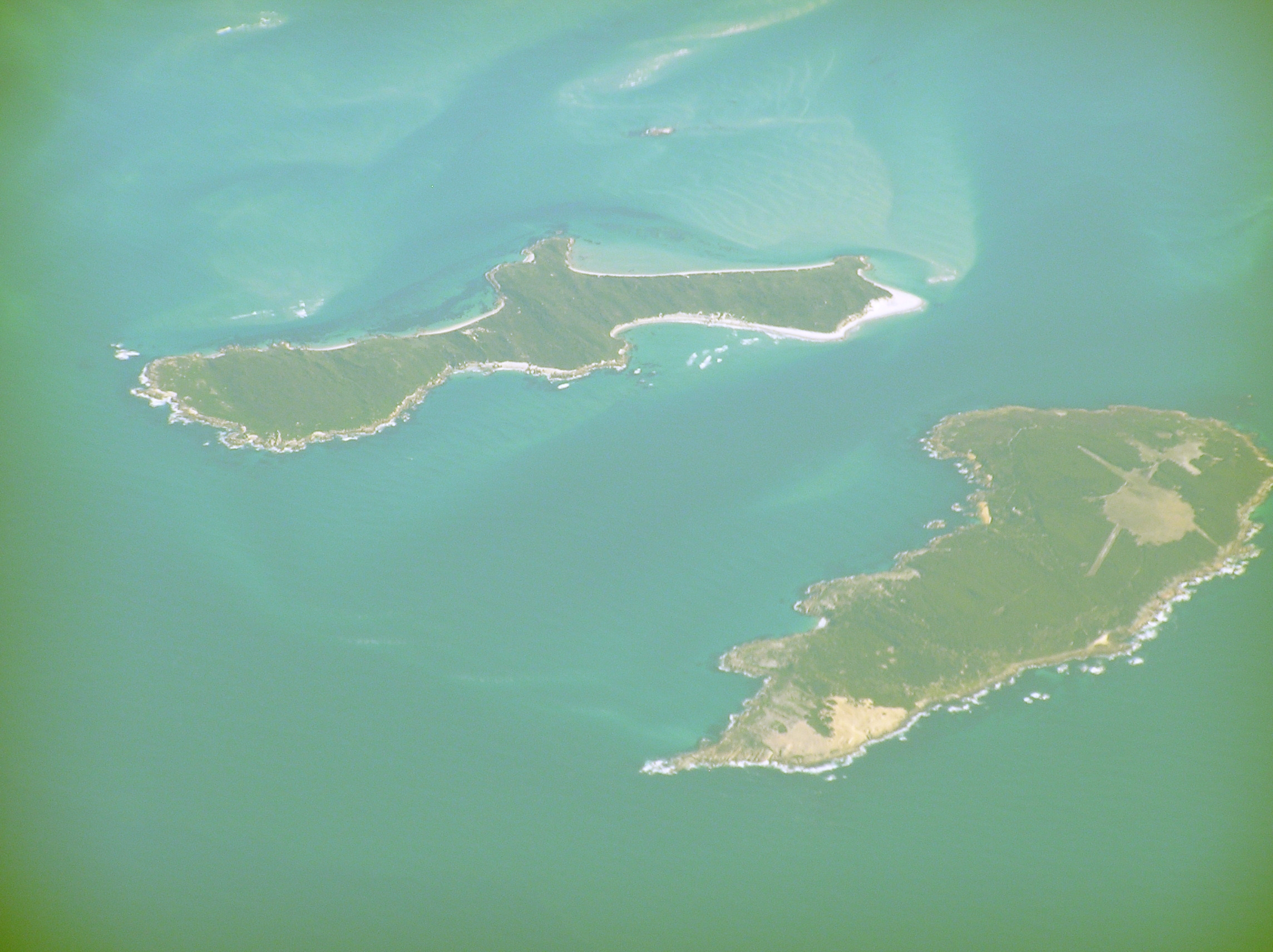 Forsyth Island on top, Passage Island on bottom right, Bass Strait Tasmania view from south east